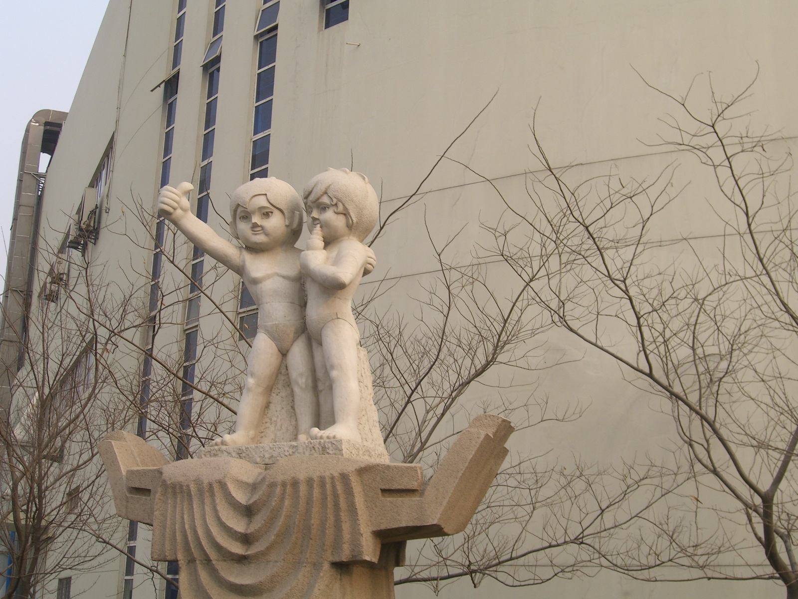 This picture shows the Haier Logo positioned in front of the Haier plant in Qingdao, China